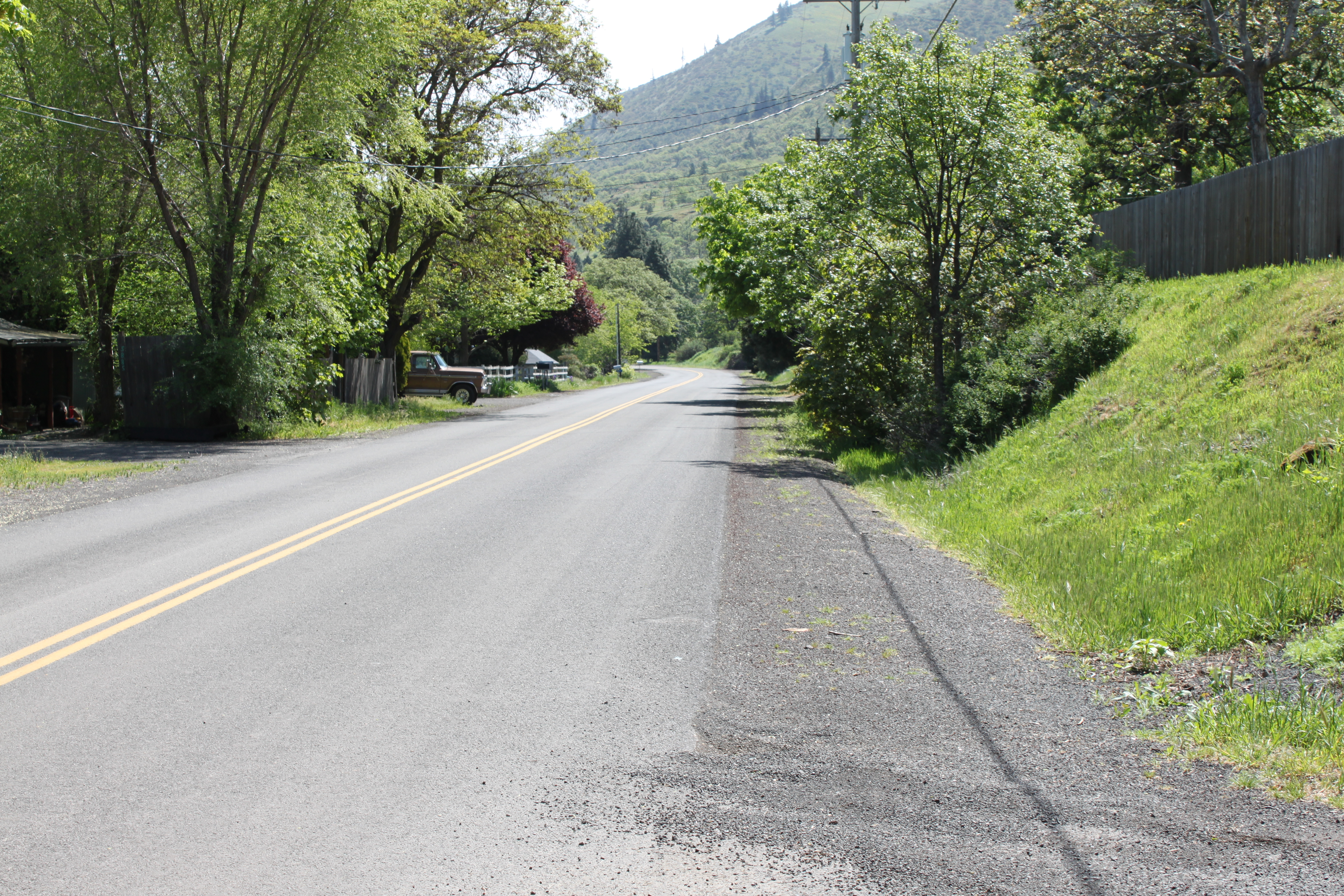 Modern picture of Rowena, Oregon along U.S. Route 30. Uninspiring but a good reflection of Rowena.